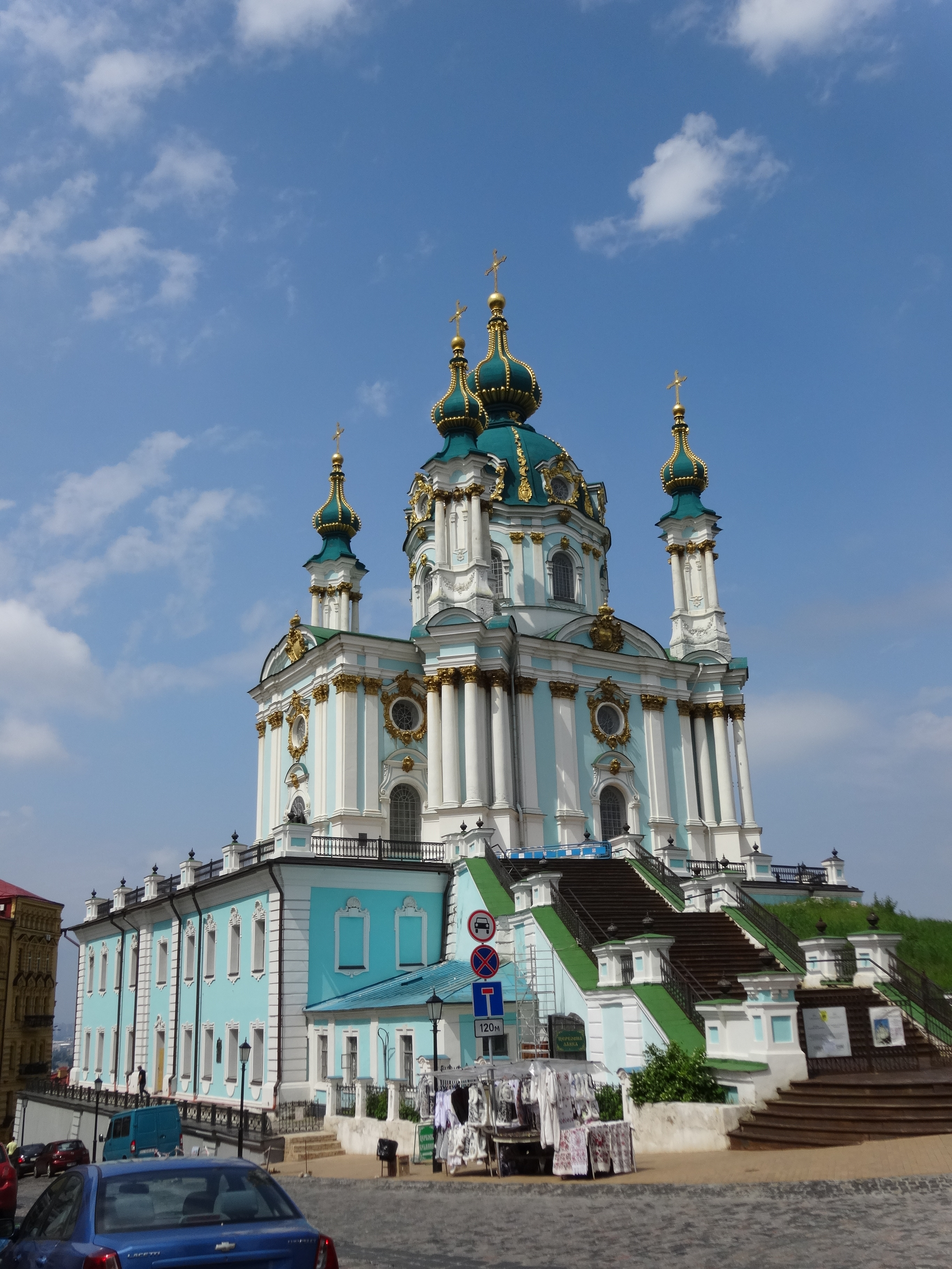 St. Andrew's, Kiev